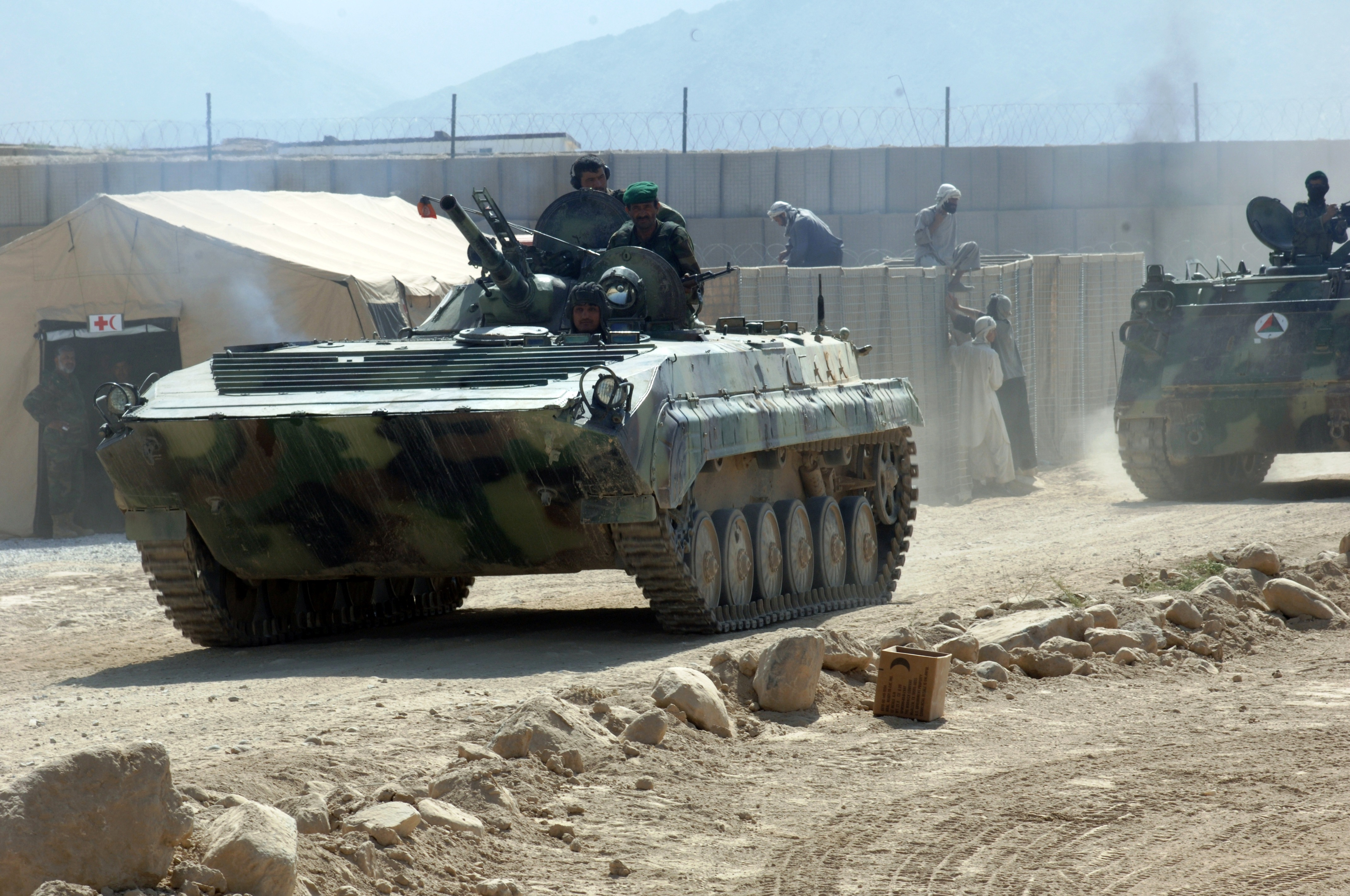 Afghan National Army soldiers depart in armored vehicles for a patrol in Tagab Valley.